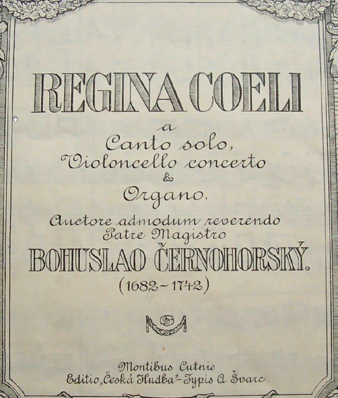 Title page of Regina Coeli, Bohuslav Matěj Černohorský